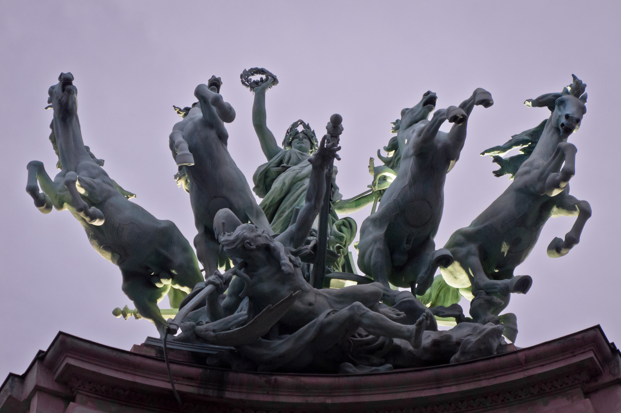 Immortality Outstripping Time, on the Grand Palais of Paris, France.